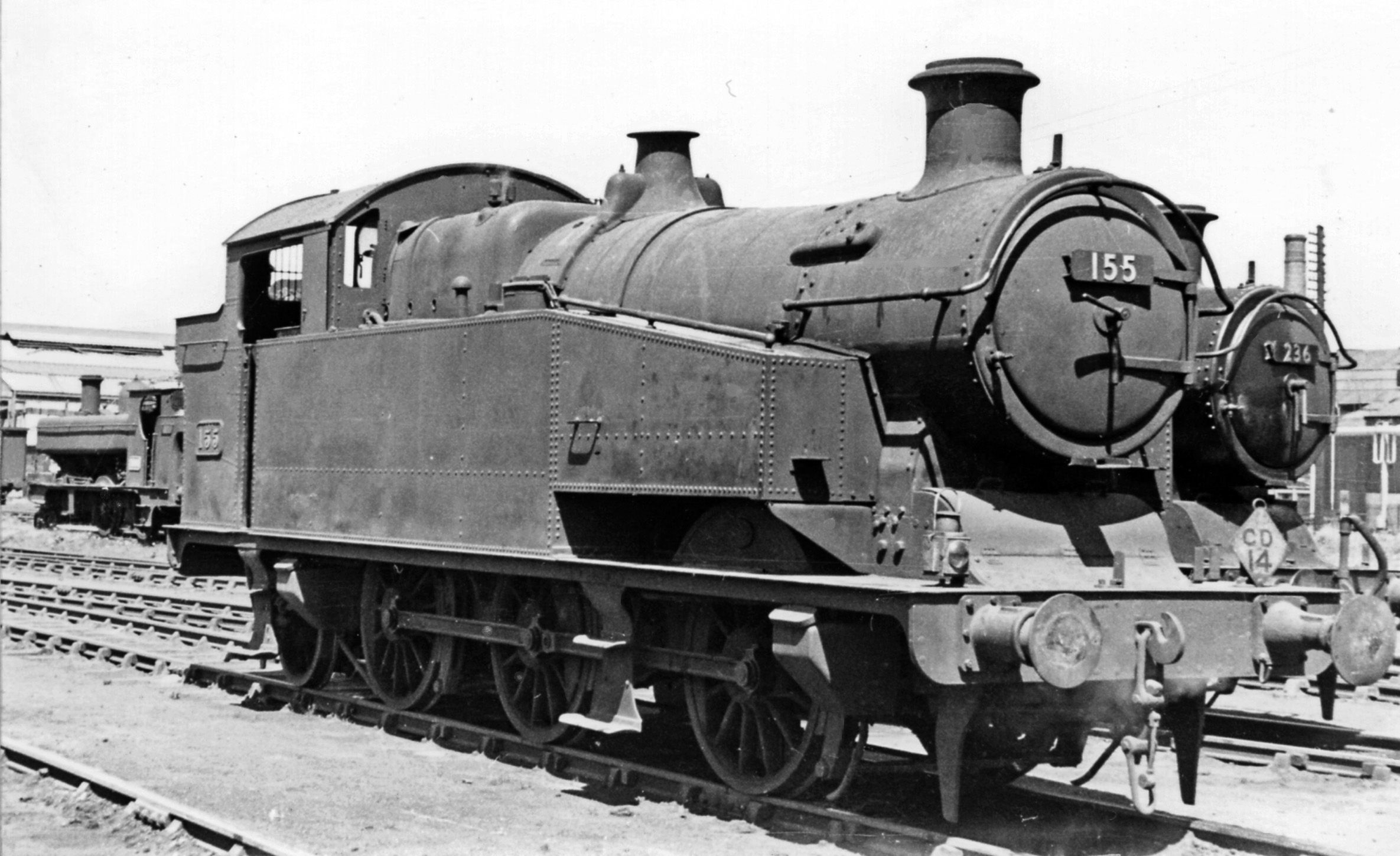 Rare Cardiff Railway 0-6-2T at Cardiff East Dock Locomotive Depot. In 1922 the GWR took over 36 locomotives from the Cardiff Railways stock, but only one 0-6-2T, four 0-6-0T and two 0-4-0T survived the 1930s. This is the single 0-6-2T, No. 155 (built 1908), very 'Swindonised' as were almost all the locomotives of the various independent South Wales Railways absorbed by the GWR. The location of Cardiff East Dock Depot is hard to localise precisely on modern maps, as the whole area has been so thoroughly redeveloped in recent times - the Depot was located between Bute East Dock and Roath Dock and a great road roundabout seems to occupy its site now. In the 1950s it was coded 88B in the Cardiff Valleys Division, with an allocation of 70 steam locomotives:- 30 0-6-2T and 40 0-6-0T, but in 1962 it took over the remaining main-line steam stock from Cardiff Canton and remained active until August 1965.